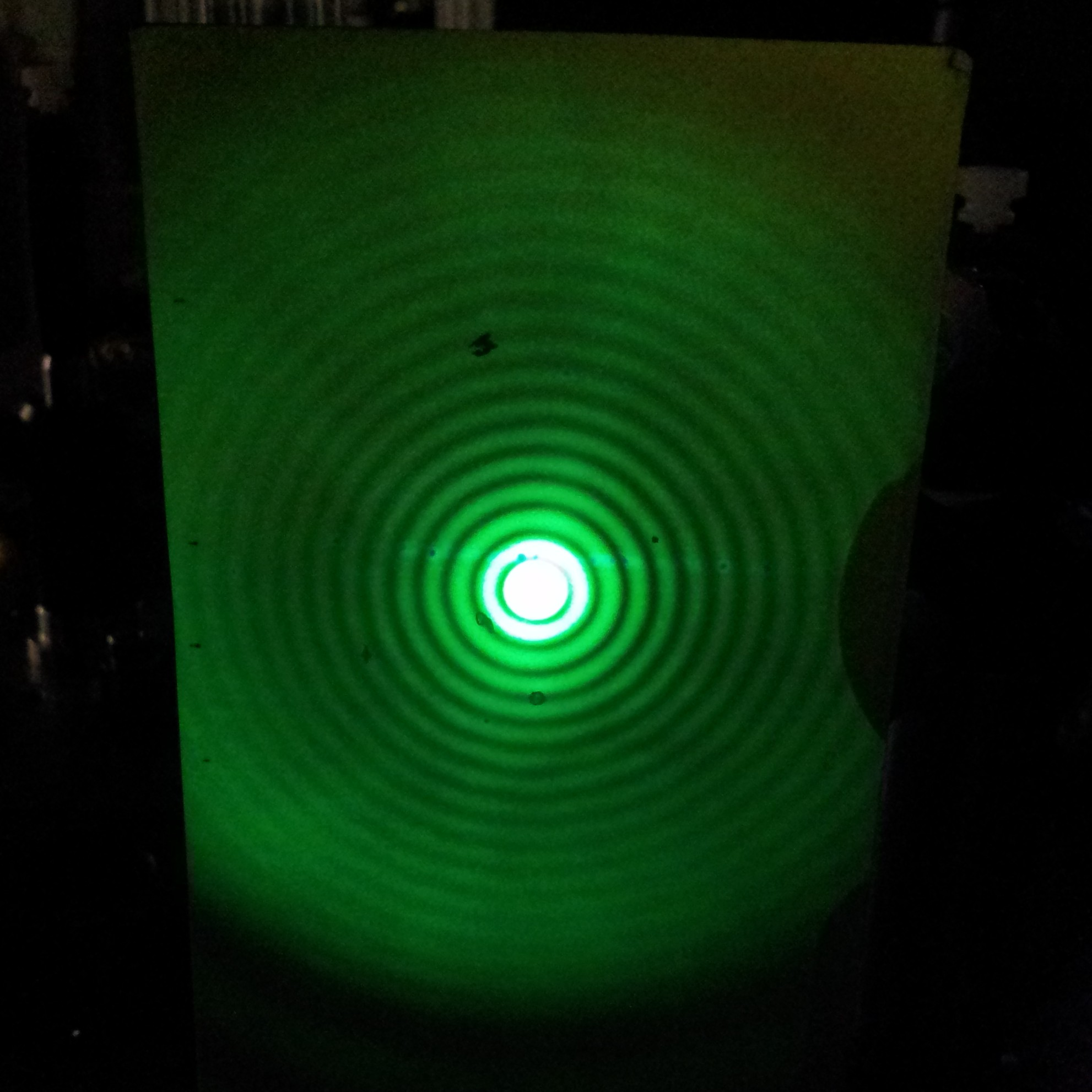 Real Airy disk created by passing a laser beam through a pinhole aperture